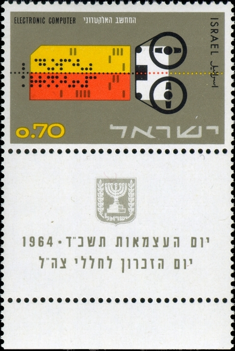 Stamp marking Sixteenth Independence Day